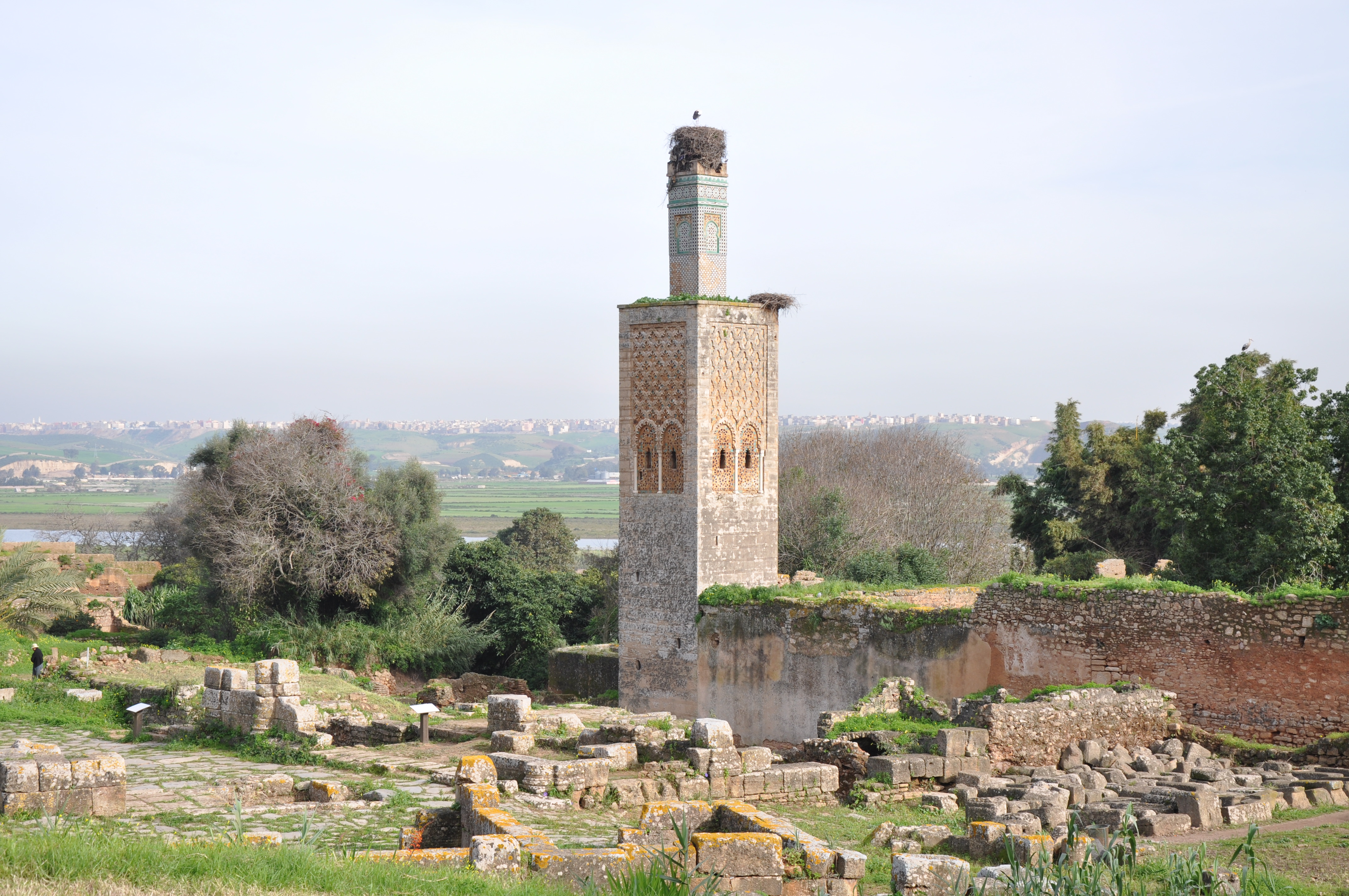 Chellah, (Arabic: شالة) or Sala Colonia is a necropolis and complex of ancient Roman Mauretania Tingitana and medieval ruins at Rabat, Morocco. It is the most ancient human settlement on the mouth of the Bou Regreg River